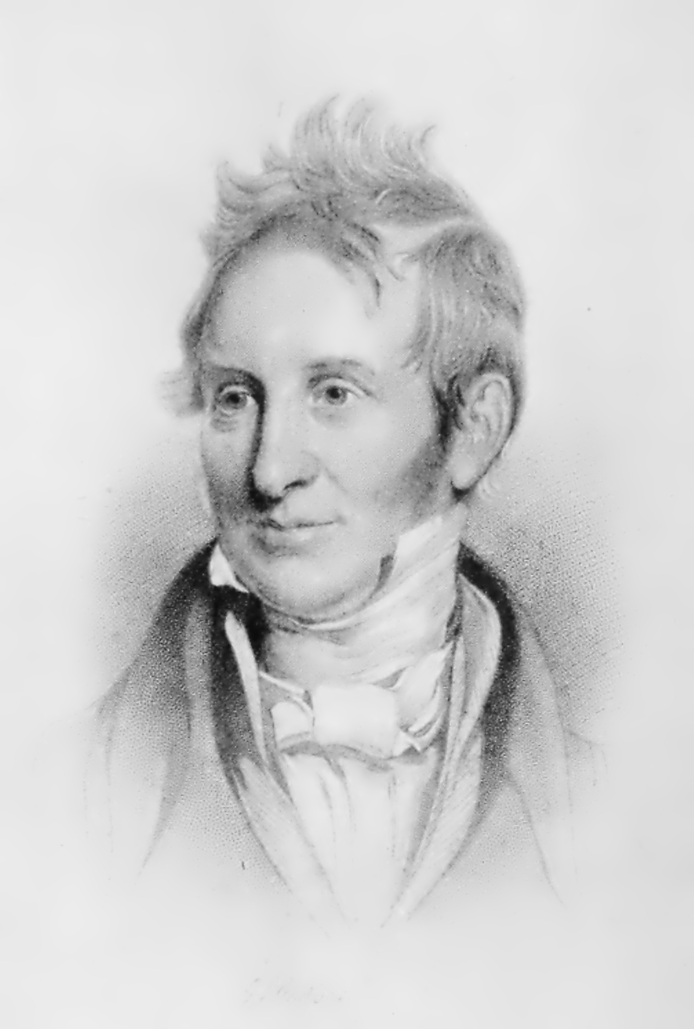 Mountstuart Elphinstone FRSE (6 October 1779 – 20 November 1859)